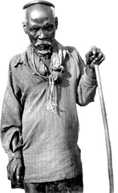 Sigananda kaSokufa, Zulu aristocrat whose life spanned the reigns of four Zulu kings in southeastern Africa